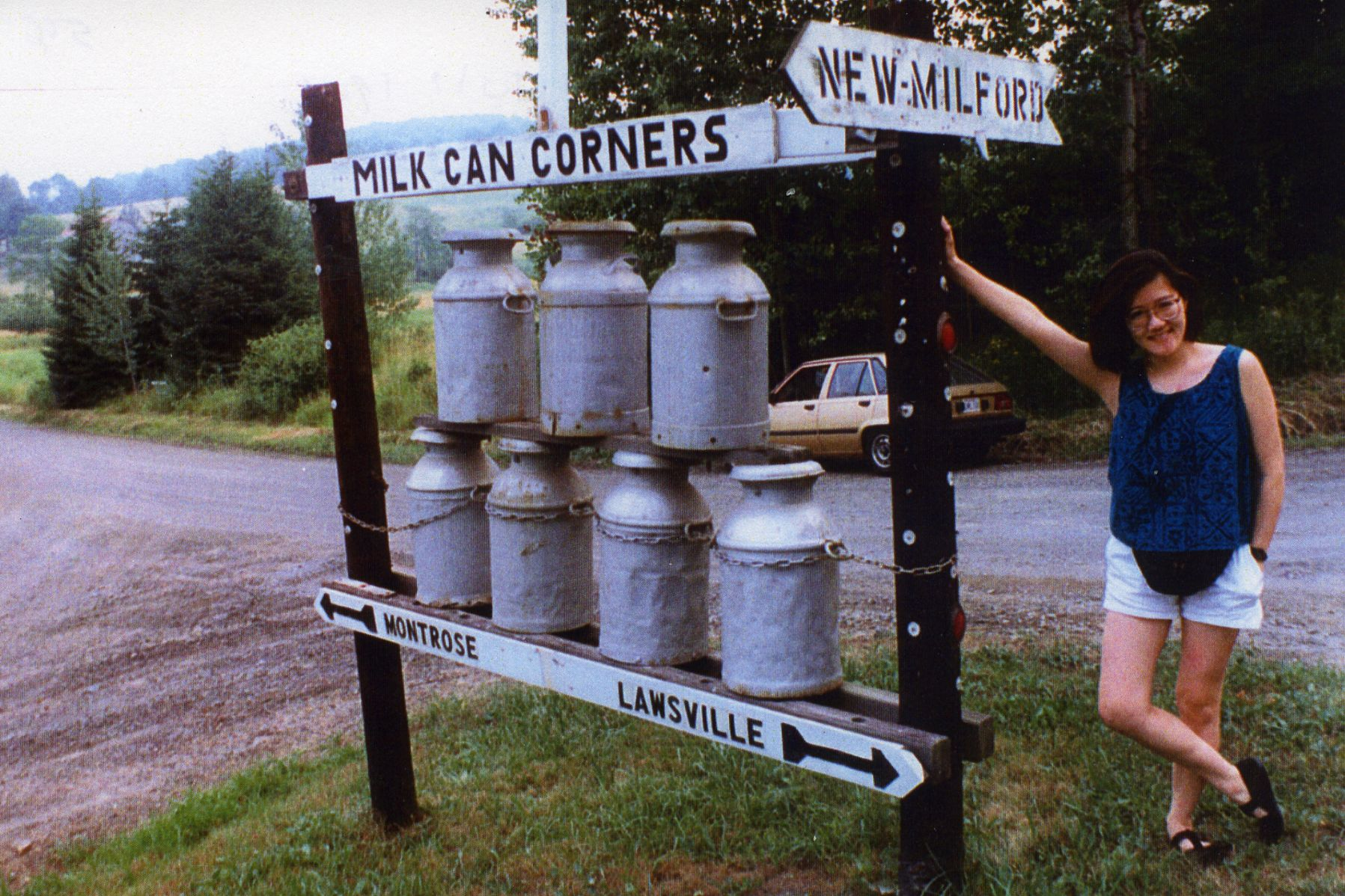 Woman with display of milk cans at an Intersection called Milk Can Corners in Hallstead, 1991. While the mailing address might have been Hallstead, the arrows pointing to the towns give the approximate location in Franklin Township, Susquehanna County, Pennsylvania, along Snake Creek Road. It's south of Lawsville (in Liberty Township)